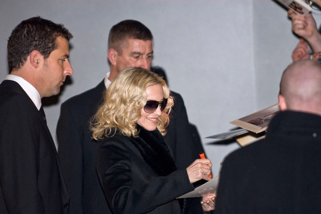 Madonna leaving the press conference for "Filth And Wisdom" at the Hyatt Hotel, Potsdamer Platz, Berlin.